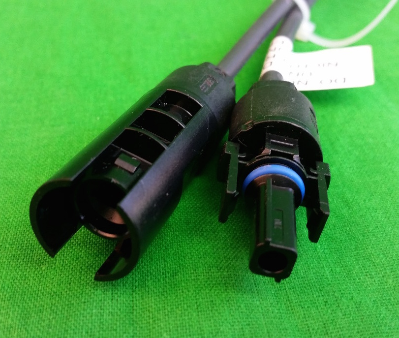 A front-on view of a typical pair of Tyco Solarlok solar panel connectors. Although they appear to be a plug on the right and a socket on the left, the left-hand connector is the male connector - hidden inside the socket-like shell is the male plug, which inserts into the centerpart of the female plug on the right. The blue ring on the female connector indicates that this connector is keyed for negative polarity, it would be red for positive. The "keys" that ensure the negative plug cannot be inserted into a positive socket are the plastic fingers extending from the top and bottom of the female plug.